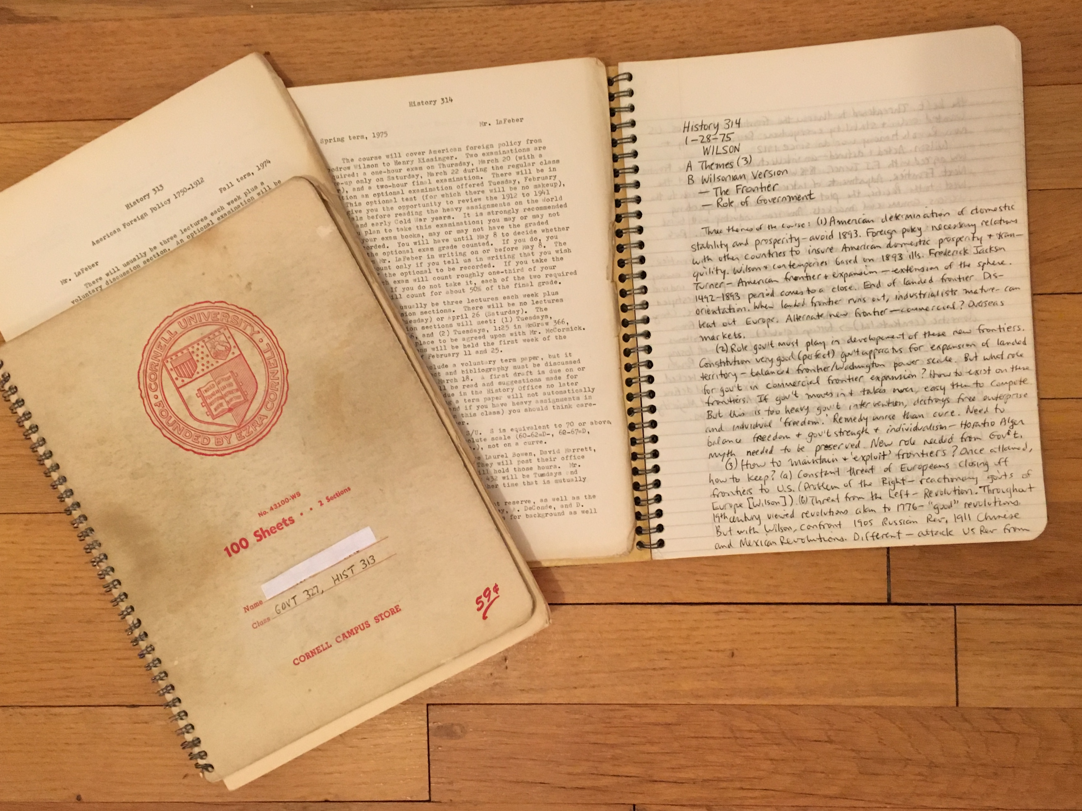 One student's notebooks from History 313 and 314, Walter LaFeber's legendary History of American Foreign Relations course as taught at Cornell University during 1974–75. Portions of the course handout sheets are also shown. Students took diligent notes during the lectures and often kept their notebooks for decades after. The History 314 page shown is for the first lecture of the semester and shows LaFeber's brief outline of the lecture as present on a chalkboard at the start.